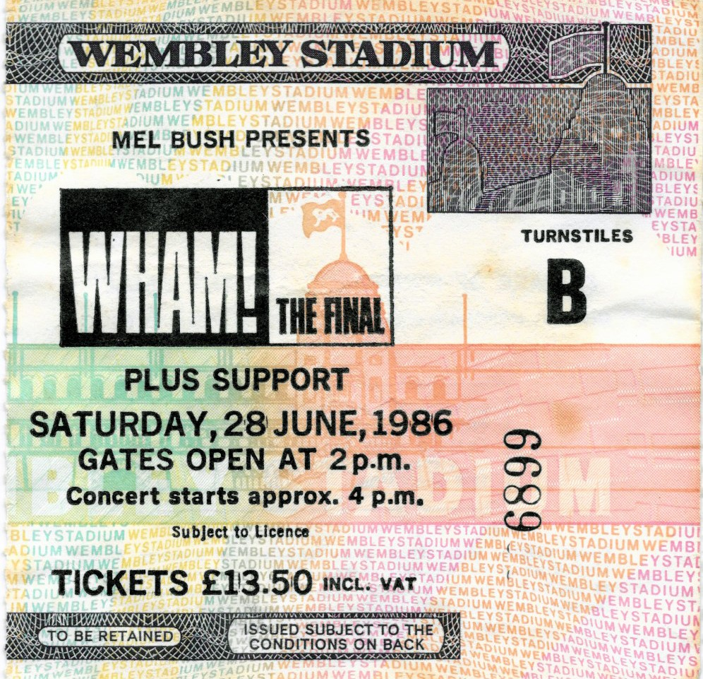 A ticket from Wham!' The Final concert at Wembley Stadium, on June 28th, 1986.